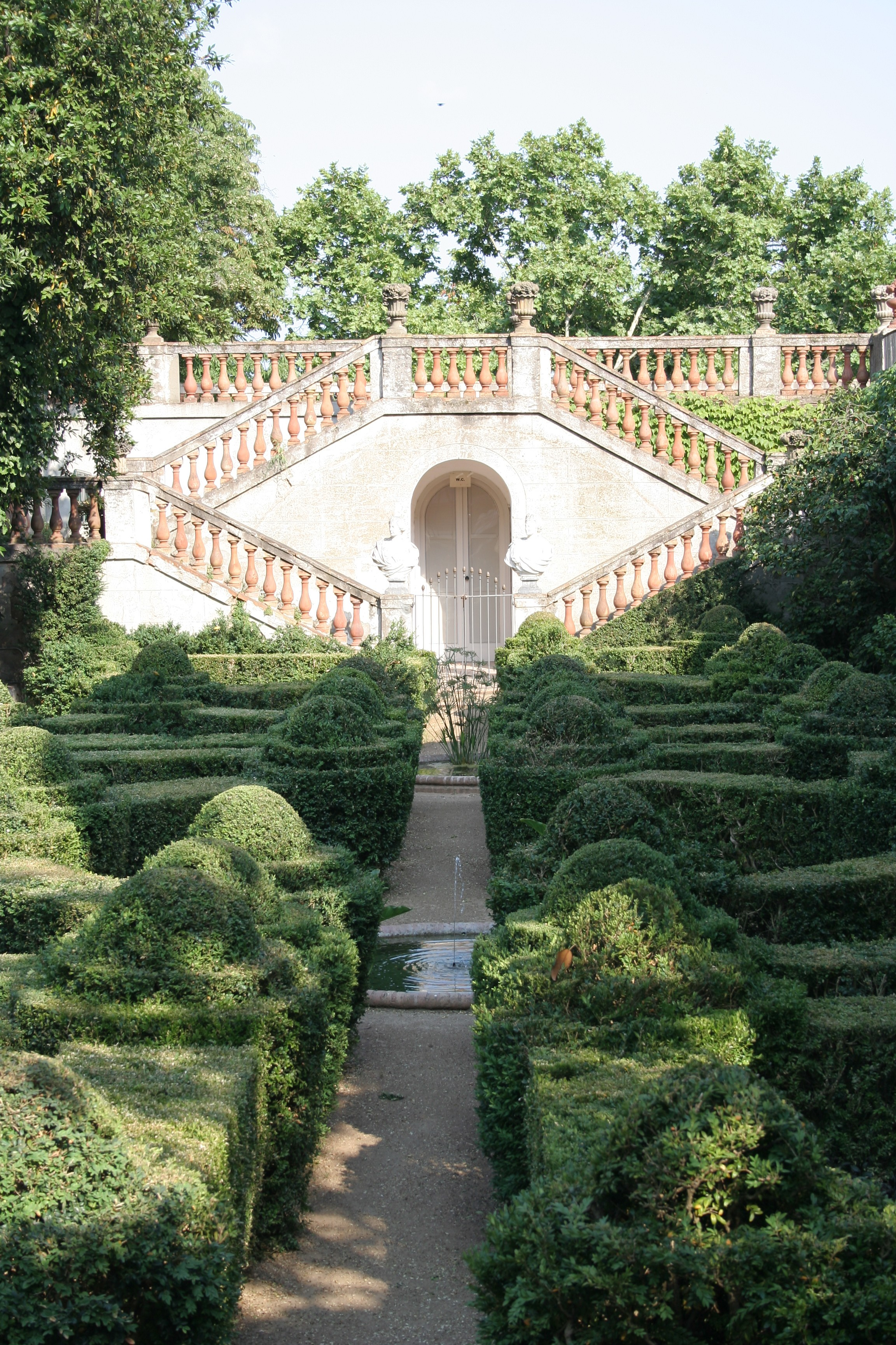 Topiary at the 18th century Parc del Laberint d'Horta, in Barcelona.